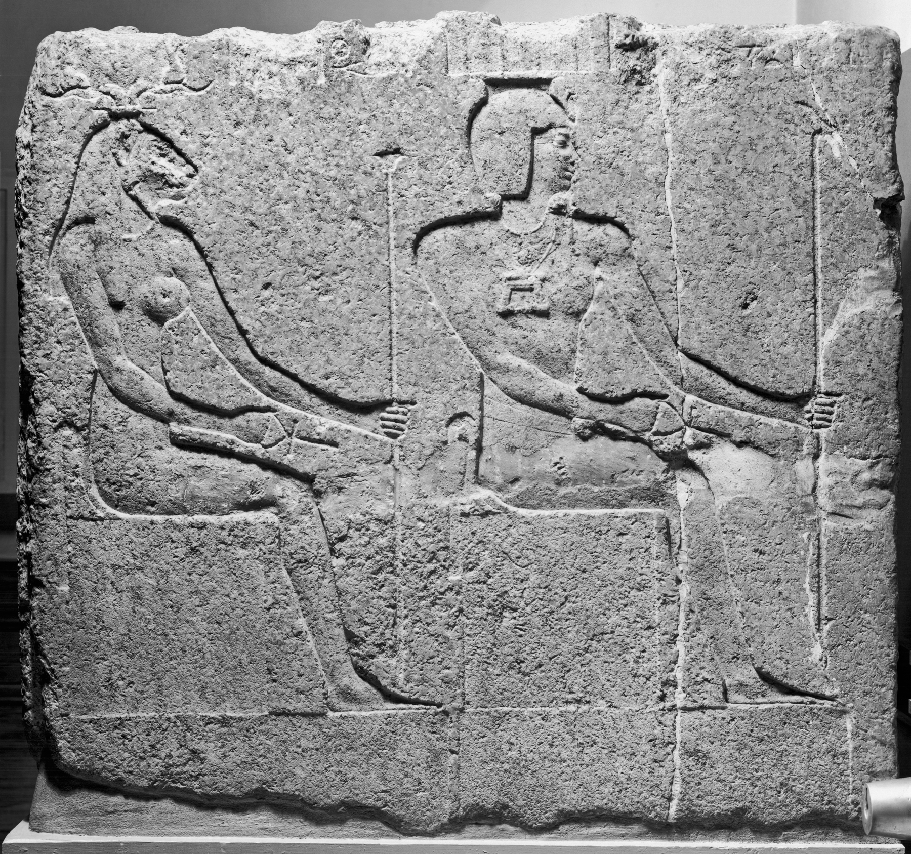 The patron deities of ancient Samannud, the war and air god Onuris-Shu and his lioness-headed mate, Mehyet, are shown enthroned on the outer face of this block. Originally, a king would have stood before them presenting offerings. Both gods hold an ankh (life symbol) and a scepter: his is the was scepter (symbolizing prosperity and dominion), hers is a papyrus scepter. On the inner face of the block, a king presents a floral offering to the divine couple, but only part of Onuris-Shu's figure remains.